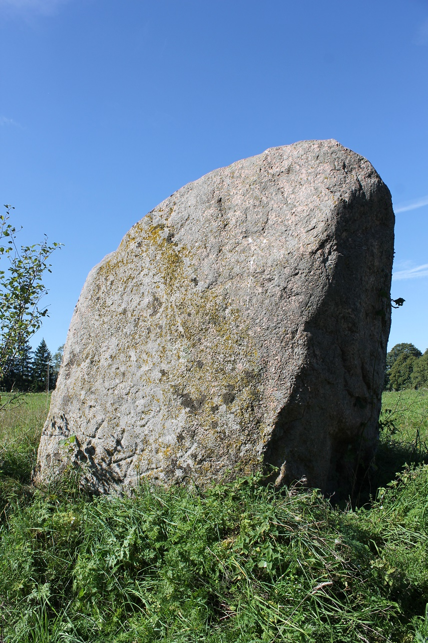 The ceremonial stone of the Apuolė, Skuodas district, LithuaniaLietuvių: Apuolės apeiginis akmuo, Skuodo rajonas, Lietuva